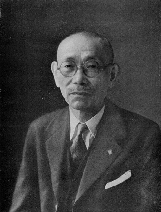 Portrait of Mr. Tetsuji Morohashi at 70 years old.